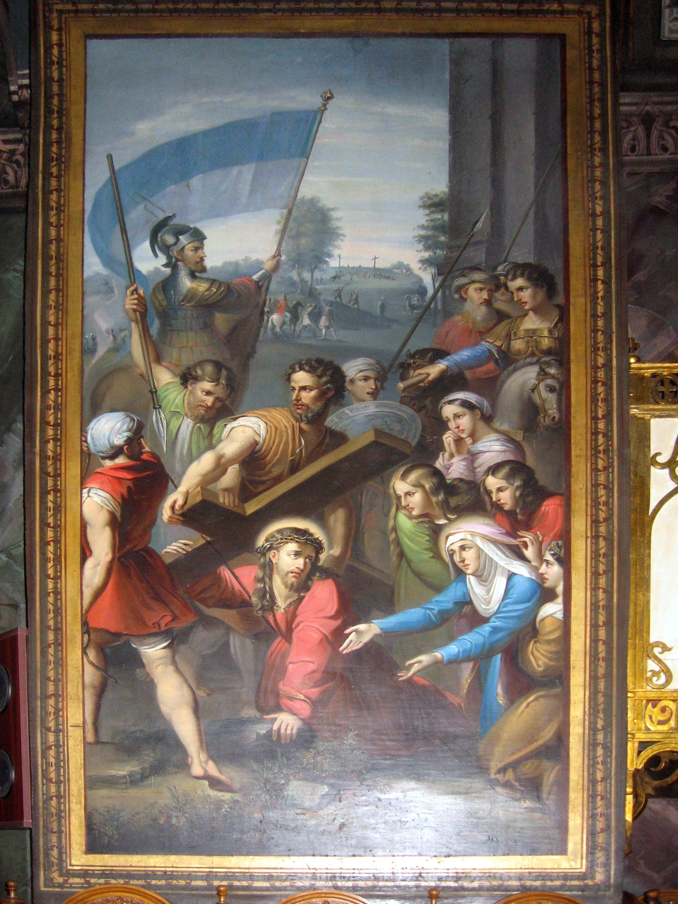 Mănăstirea Agapia